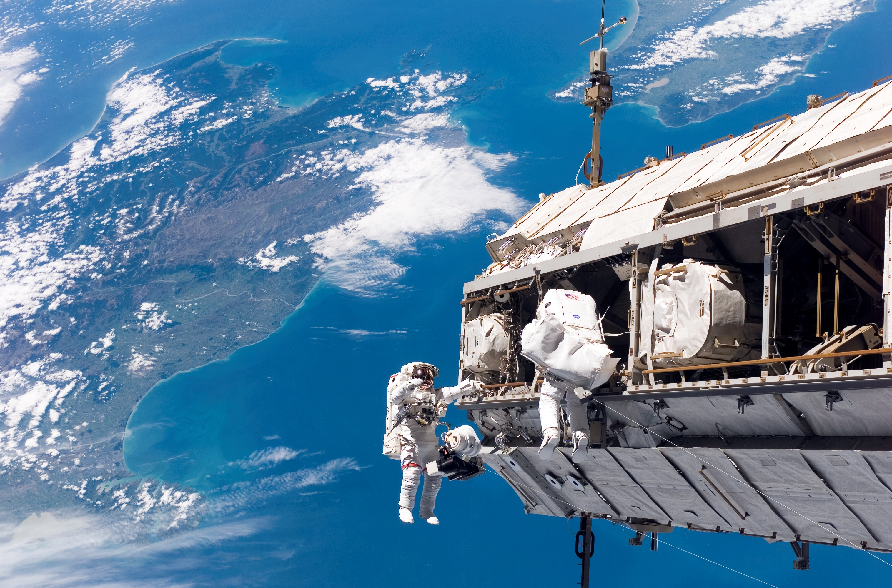 STS-116 Shuttle Mission Imagery S116-E-05983 (12 Dec. 2006) --- Backdropped by a colorful Earth, astronaut Robert L. Curbeam, Jr. (left) and European Space Agency (ESA) astronaut Christer Fuglesang, both STS-116 mission specialists, participate in the mission's first of three planned sessions of extravehicular activity (EVA) as construction resumes on the International Space Station. The landmasses depicted are the South Island (left) and North Island (right) of New Zealand. Explanation: The International Space Station (ISS) will be the largest human-made object ever to orbit the Earth. The station is so large that it could not be launched all at once -- it is being built piecemeal with large sections added continually by flights of the Space Shuttle. To function, the ISS needs trusses to keep it rigid and to route electricity and liquid coolants. These trusses are huge, extending over 15 meters long, and with masses over 10,000 kilograms. Pictured above earlier this month, astronauts Robert L. Curbeam (USA) and Christer Fuglesang (Sweden) work to attach a new truss segment to the ISS and begin to upgrade the power grid.